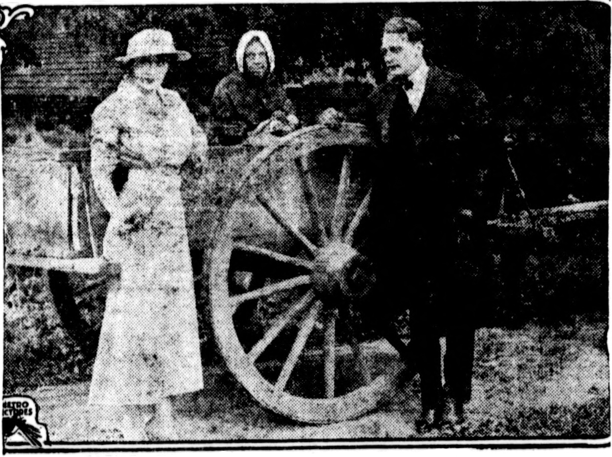 The Black Butterfly is a lost 1916 silent film drama starring Olga Petrova and released by Metro Pictures. This is a scene from the film, published in a newspaper.